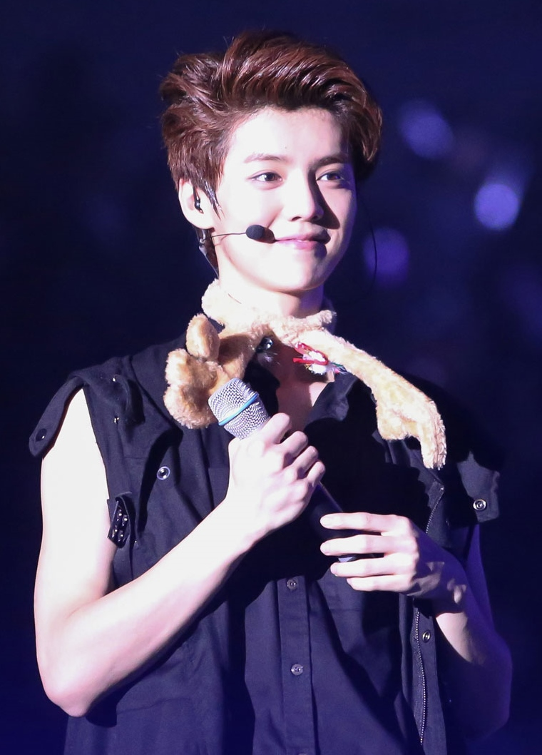 Lu Han at the SMTown Week on December 24, 2013.